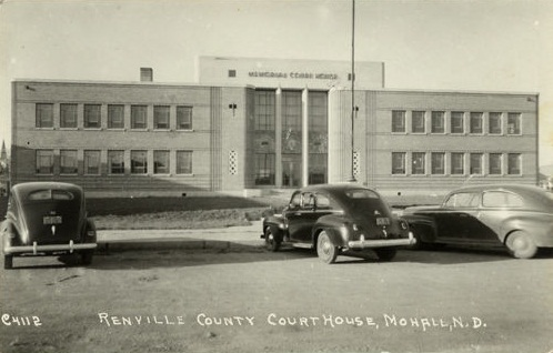 Photographic postcard of Renville County Courthouse, Mohall This work is in the public domain because it was published in the United States between 1923 and 1963 and although there may or may not have been a copyright notice, the copyright was not renewed. Unless its author has been dead for the required period, it is copyrighted in the countries or areas that do not apply the rule of the shorter term for US works, such as Canada (50 pma), Mainland China (50 pma, not Hong Kong or Macao), Germany (70 pma), Mexico (100 pma), Switzerland (70 pma), and other countries with individual treaties. See Commons:Hirtle chart for further explanation. This work is in the public domain in the United States because it was published in the United States between 1923 and 1977 without a copyright notice. See this page for further explanation. Note that it may still be copyrighted in jurisdictions that do not apply the rule of the shorter term for US works (depending on the date of the author's death), such as Canada (50 p.m.a.), Mainland China (50 p.m.a., not Hong Kong or Macao), Germany (70 p.m.a.), Mexico (100 p.m.a.), Switzerland (70 p.m.a.), and other countries with individual treaties.